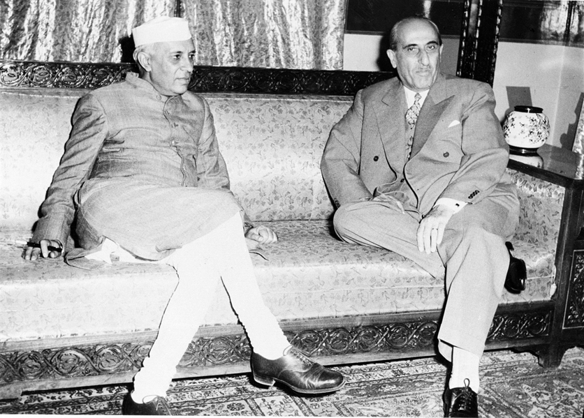 E.A.Min./June,1956,A22a(i) The Prime Minister, Shri Jawaharlal Nehru, is seen with His Excellency Shukri Kuwatly, the President of Syria, when the called on the latter at Damascus during his visit to Syria in June, 1956 on his way t London.